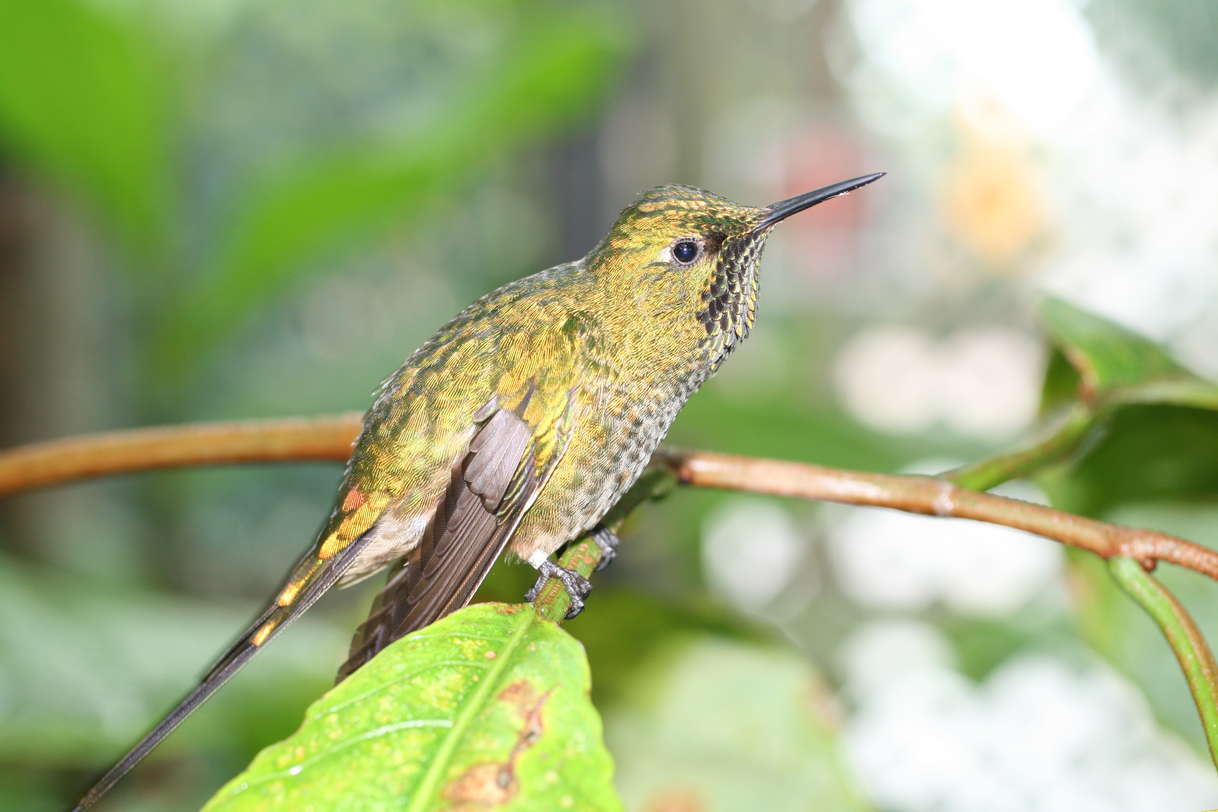 male Green-tailed Trainbearer (Lesbia nuna) seen in Butterfly World, Coconut creek, Florida.